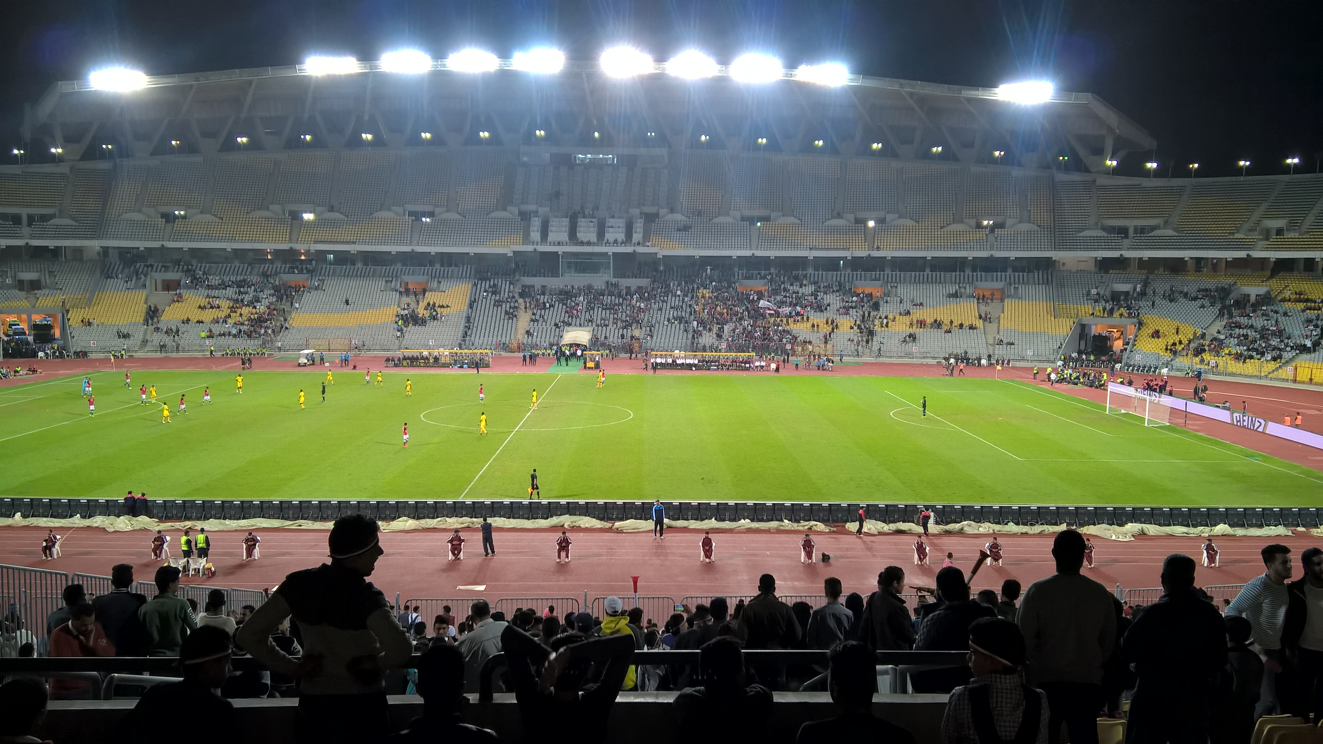 Borg El Arab Stadium on 28 March 2017 during a friendly match between Egypt v Togo.